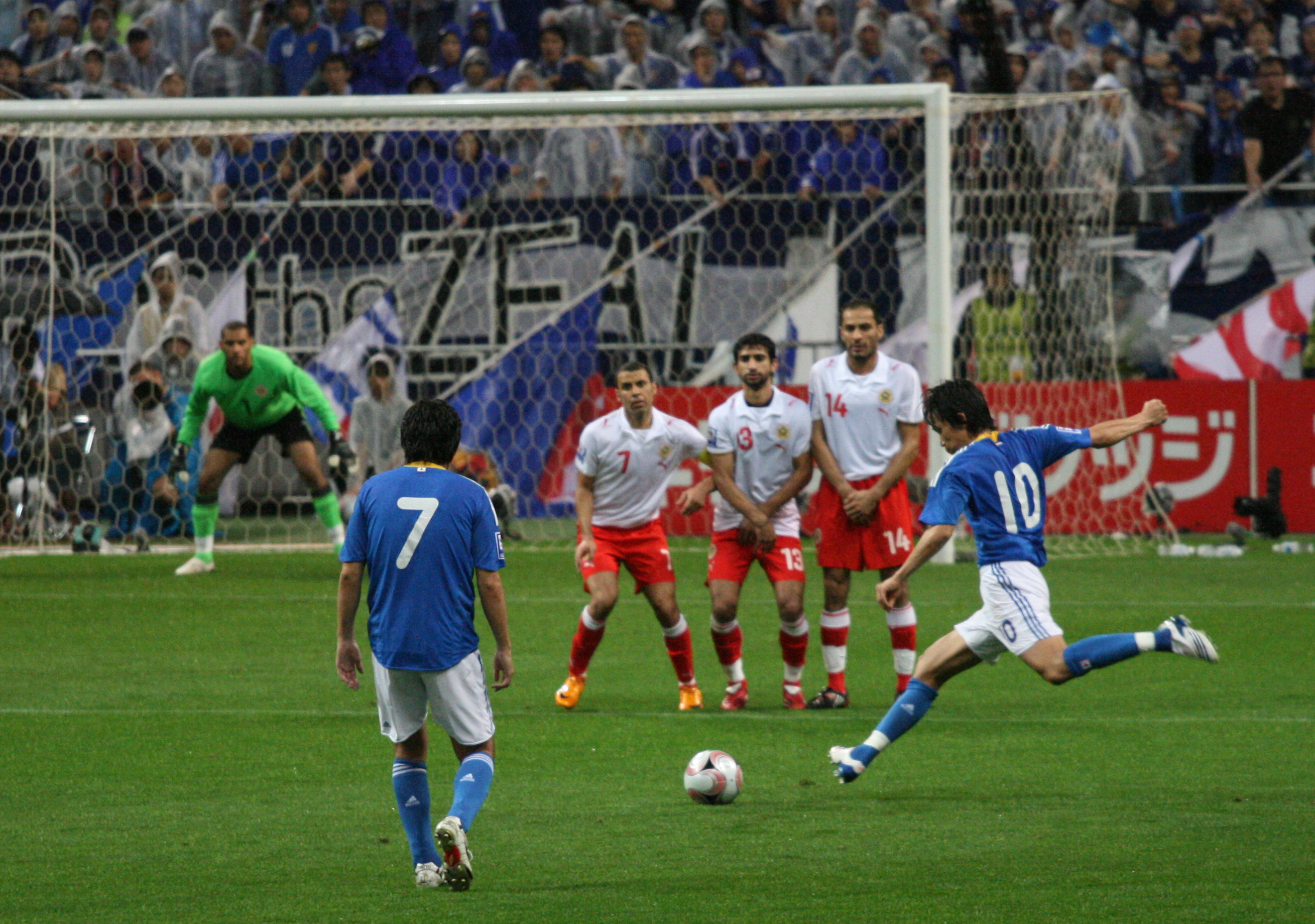 Shunsuke Nakamura taking a free kick, during Japan's world cup qualifier against Bahrain on June 22, 2008